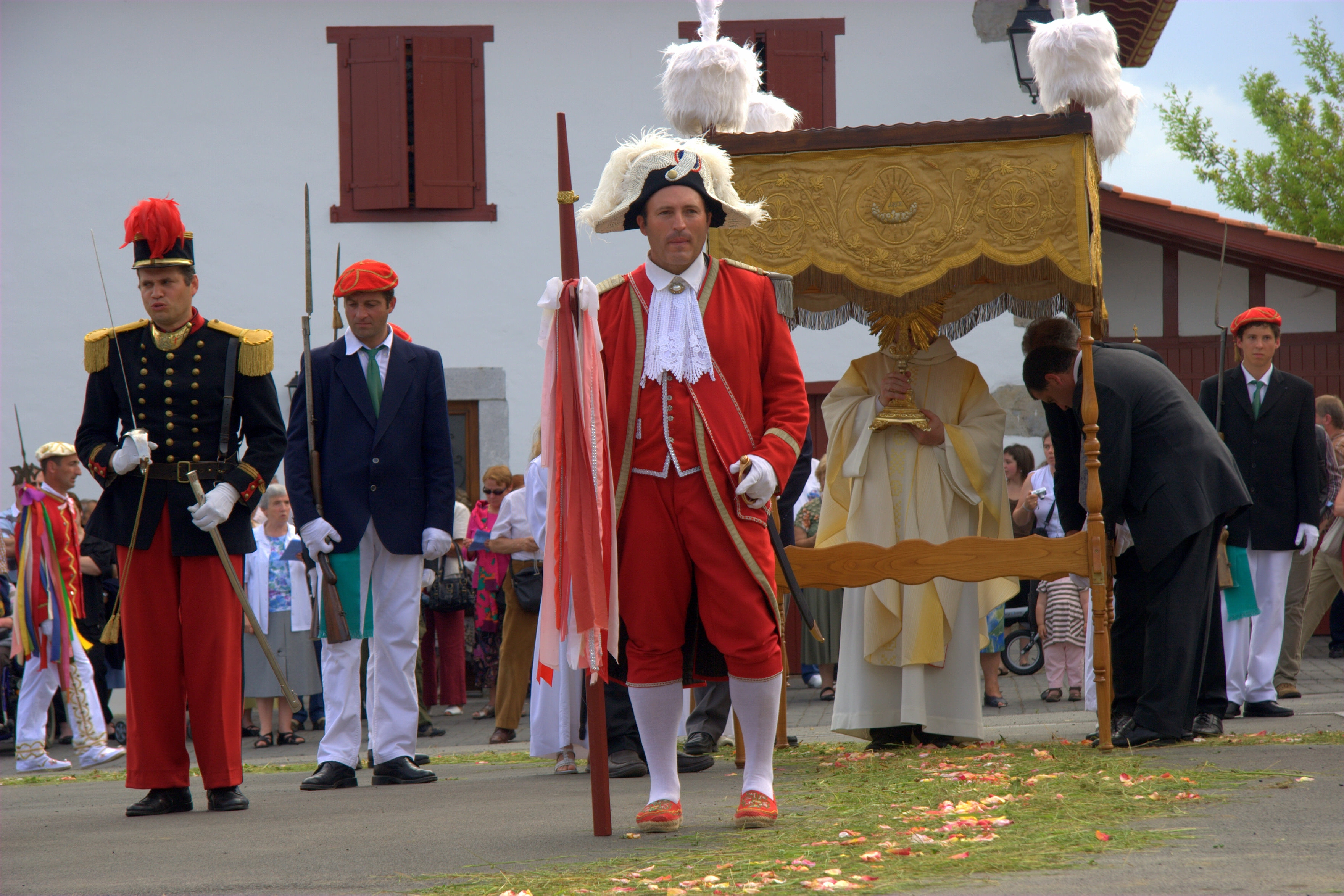 Besta Berri (Corpus Christi] celebration in Armendaritze, Navarre.